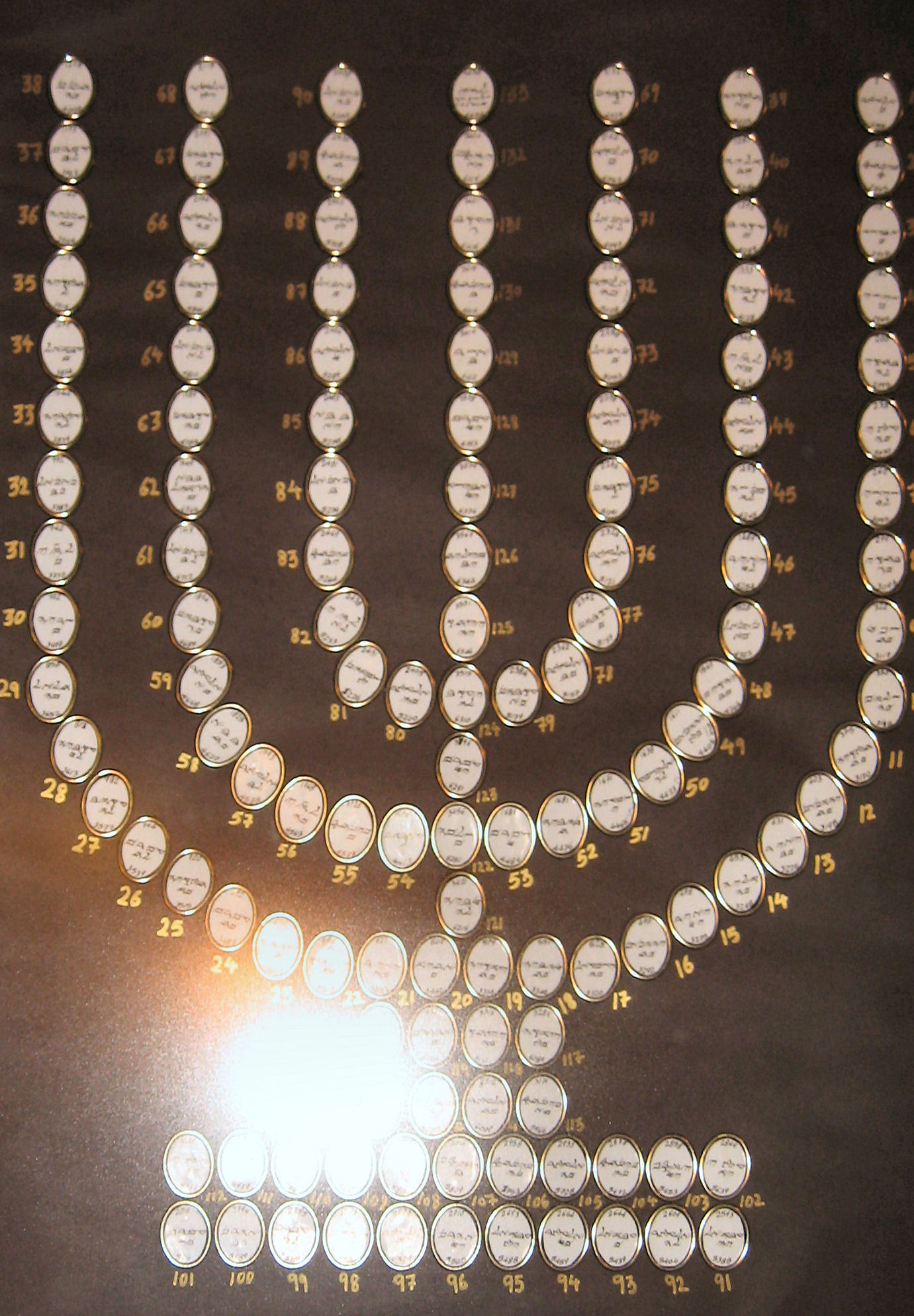 136 koanim gedolim shomronim (List of Samaritan high priests)